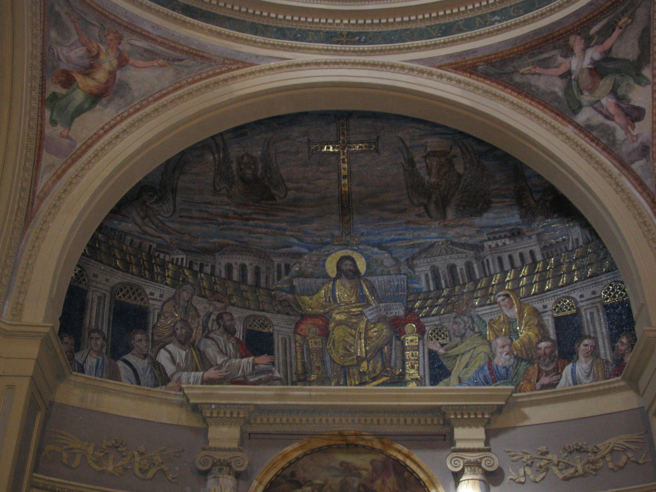 Apsis mosaic of the church of Santa Pudenziana, Rome.